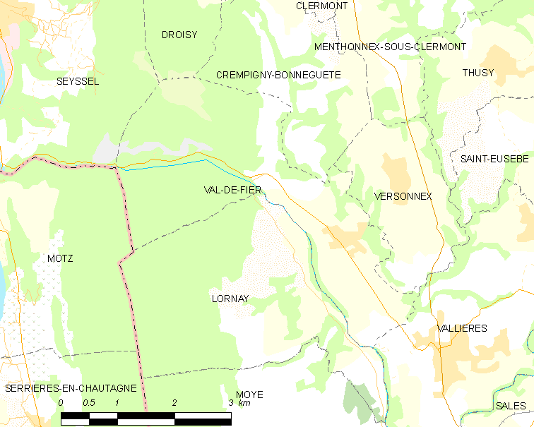 Map of French municipality Val-de-Fier